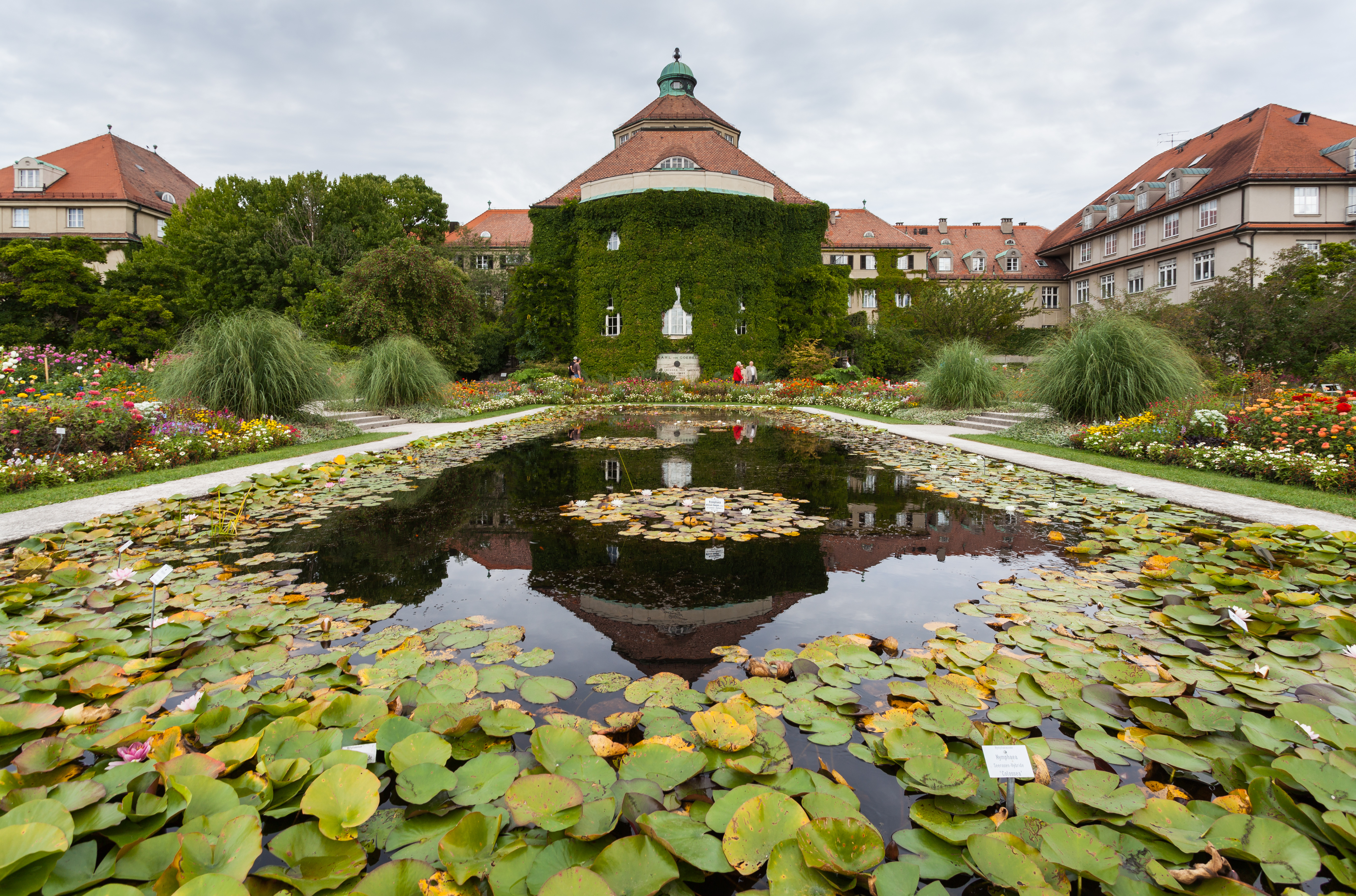 Main Building, Botanical Garden, Munich, Germany